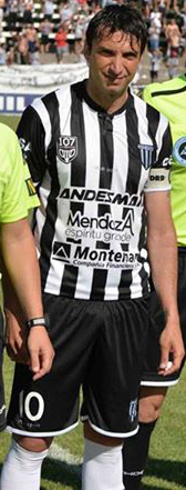 Sergio "Mago" Oga in 2015 with the shirt of Gimnasia de Mendoza.